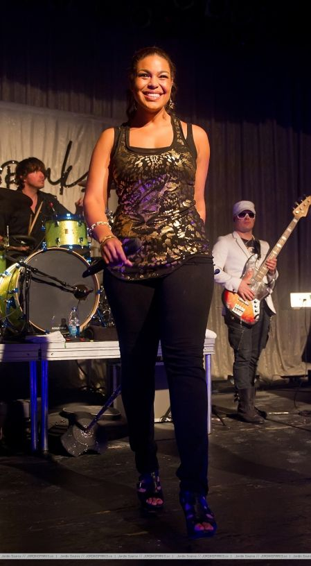 Jordin Sparks headlines her "Battlefield Tour"